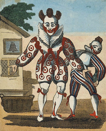 Woodcut of "Grimaldi and Son" printed by John Arliss of Gutter Lane (so almost certainly Joseph Grimaldi and Joseph Samuel Grimaldi, who performed together as father and son Clowns about 1812 to 1820; Arliss was in partnership with Huntsman before 1809)